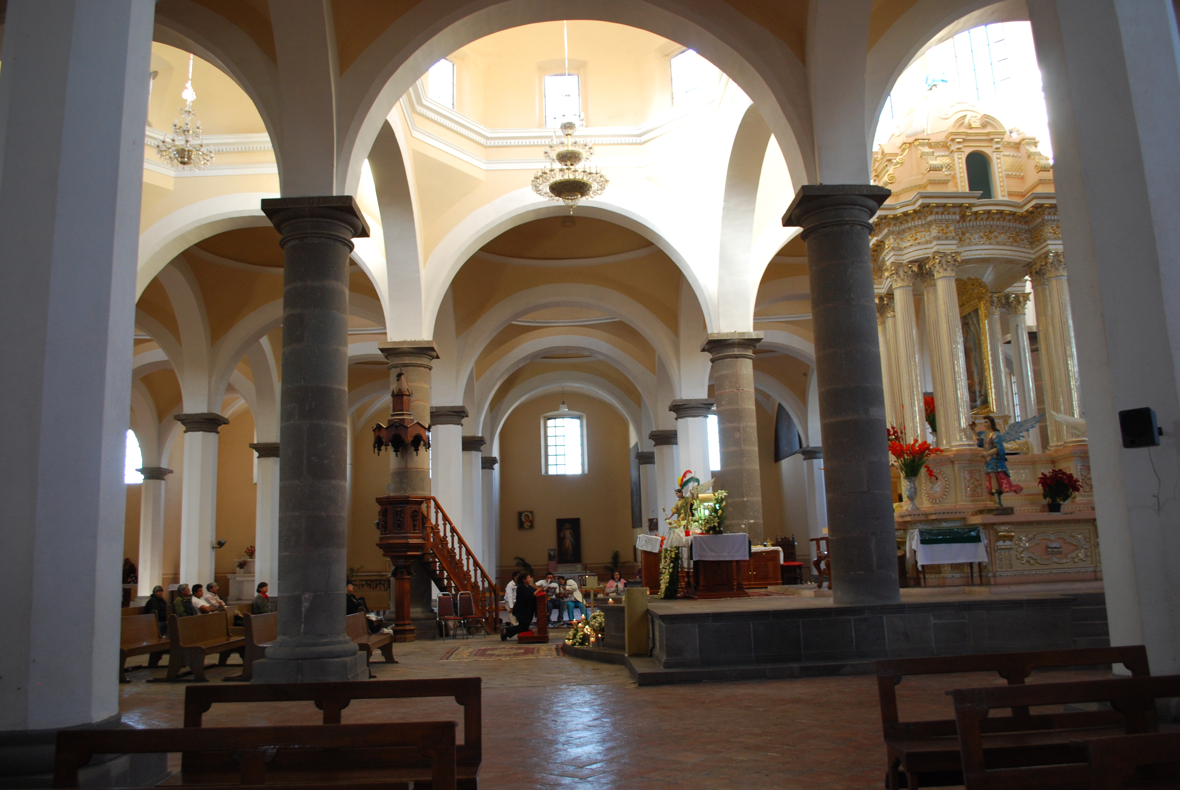 Looking across main altar area in the Capilla Real at the former monastery of San Gabriel in Cholula, Puebla, Mexico